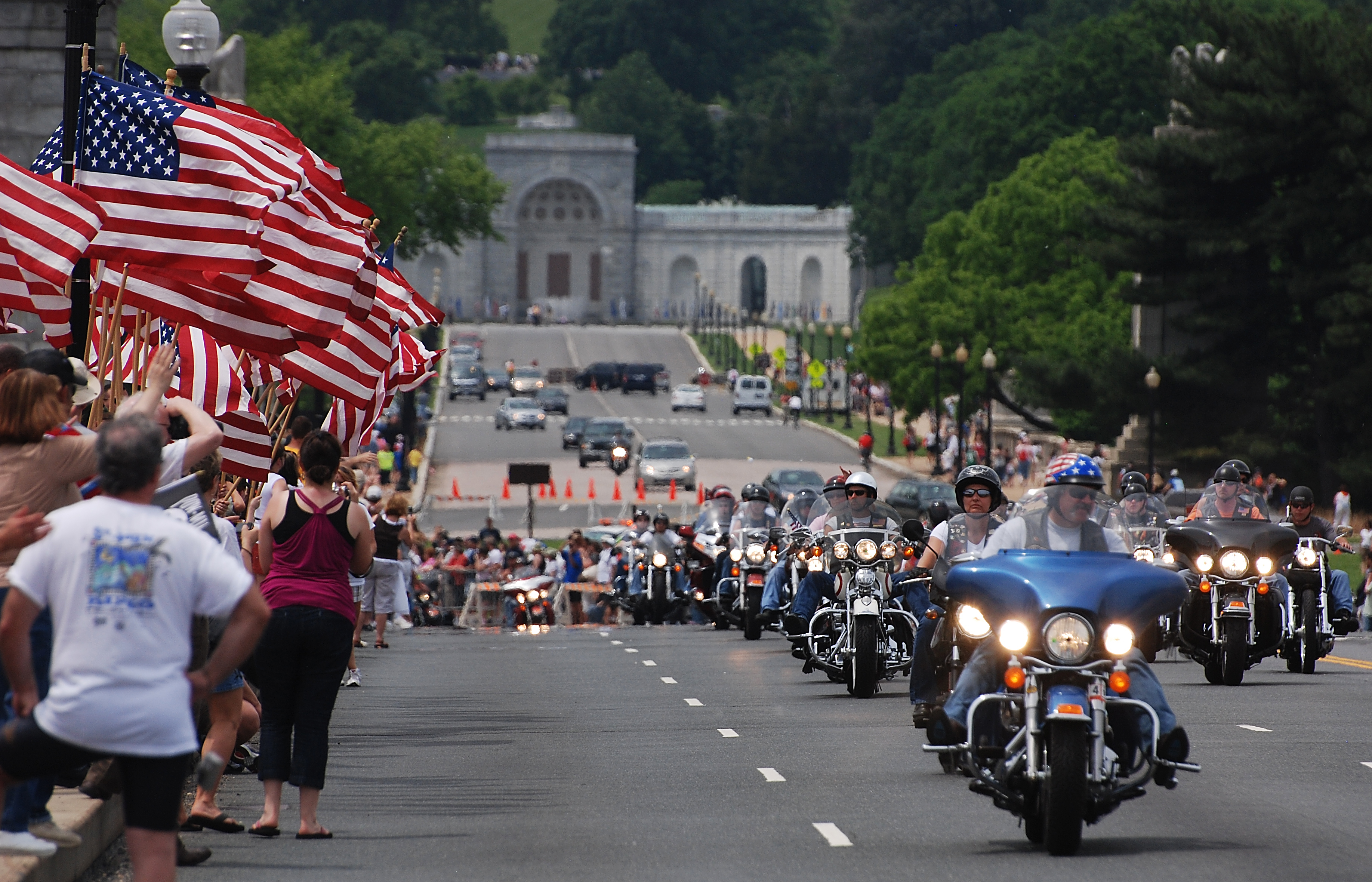 The annual ride by Rolling Thunder as it crosses the Memorial Bridge in Washington D.C.